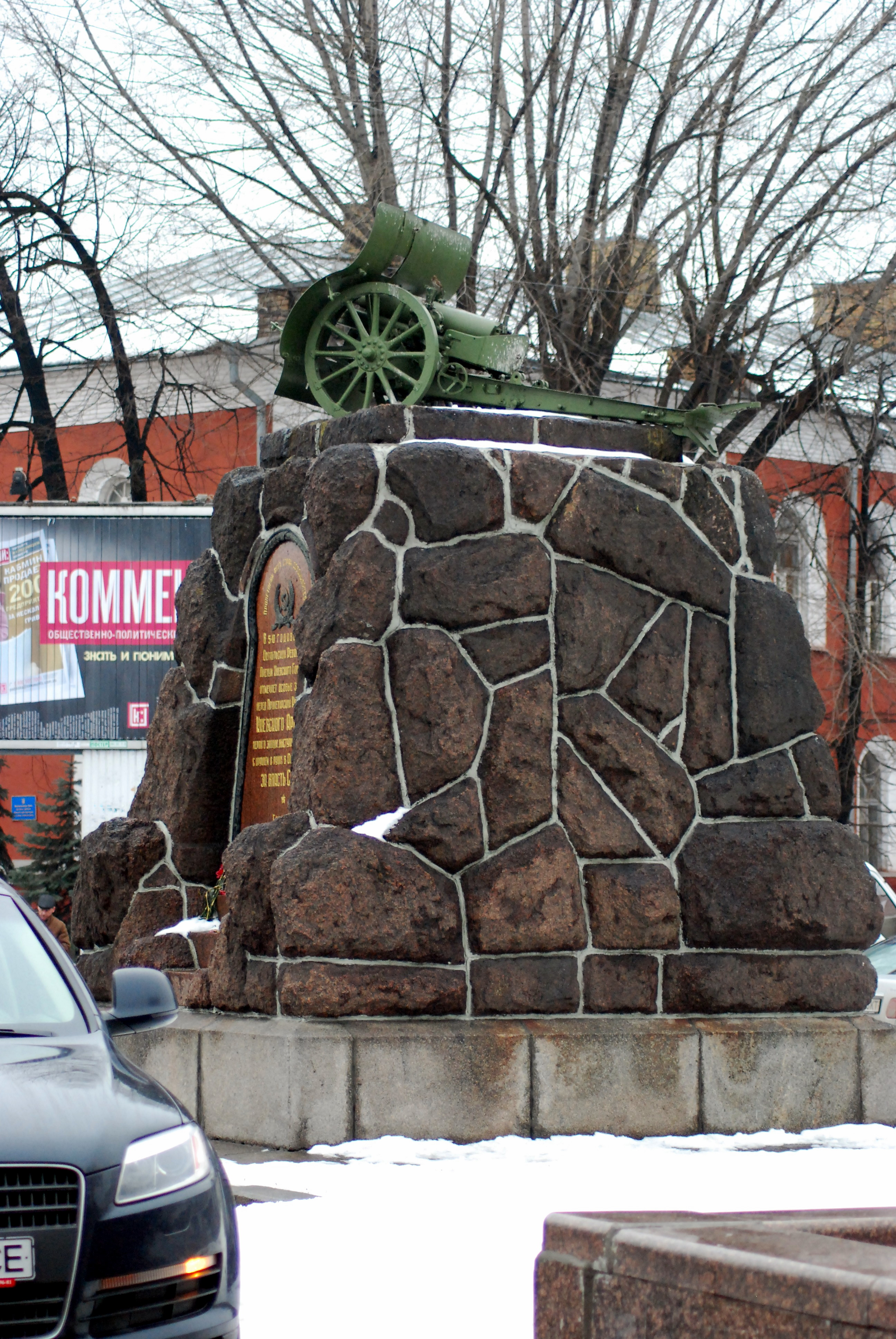 Various views of the Kiev Arsenal factory complex in Kiev, Ukraine.